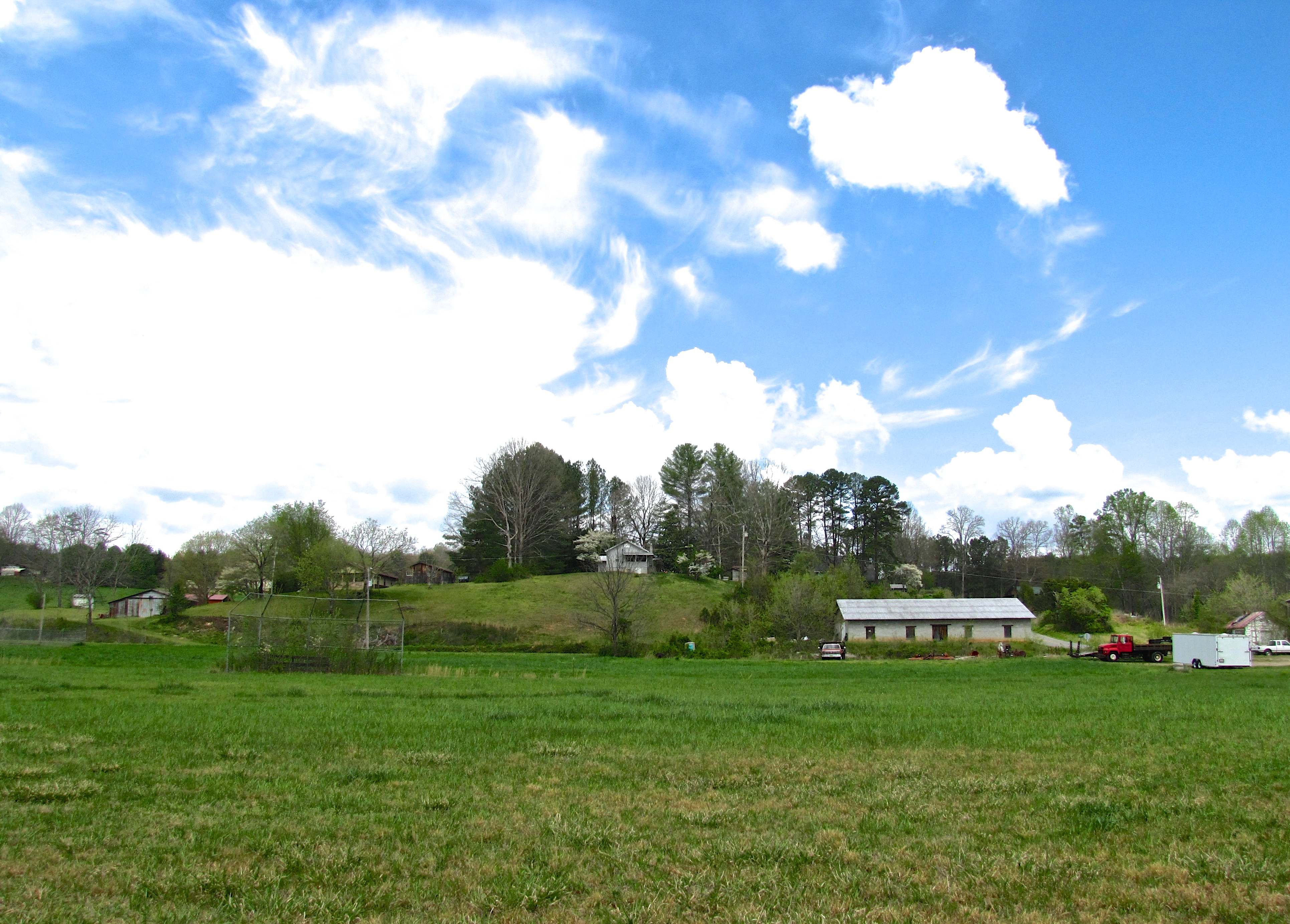 Houses in Culberson, North Carolina, United States, viewed from State Highway 60.